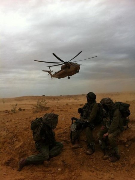 Imun Horef 2012 duciphat